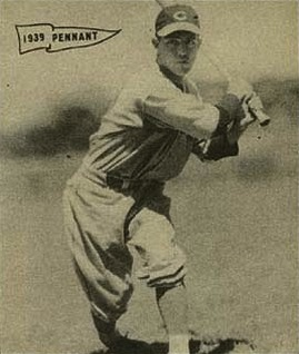 Cincinnati Reds catcher Willard Hershberger.